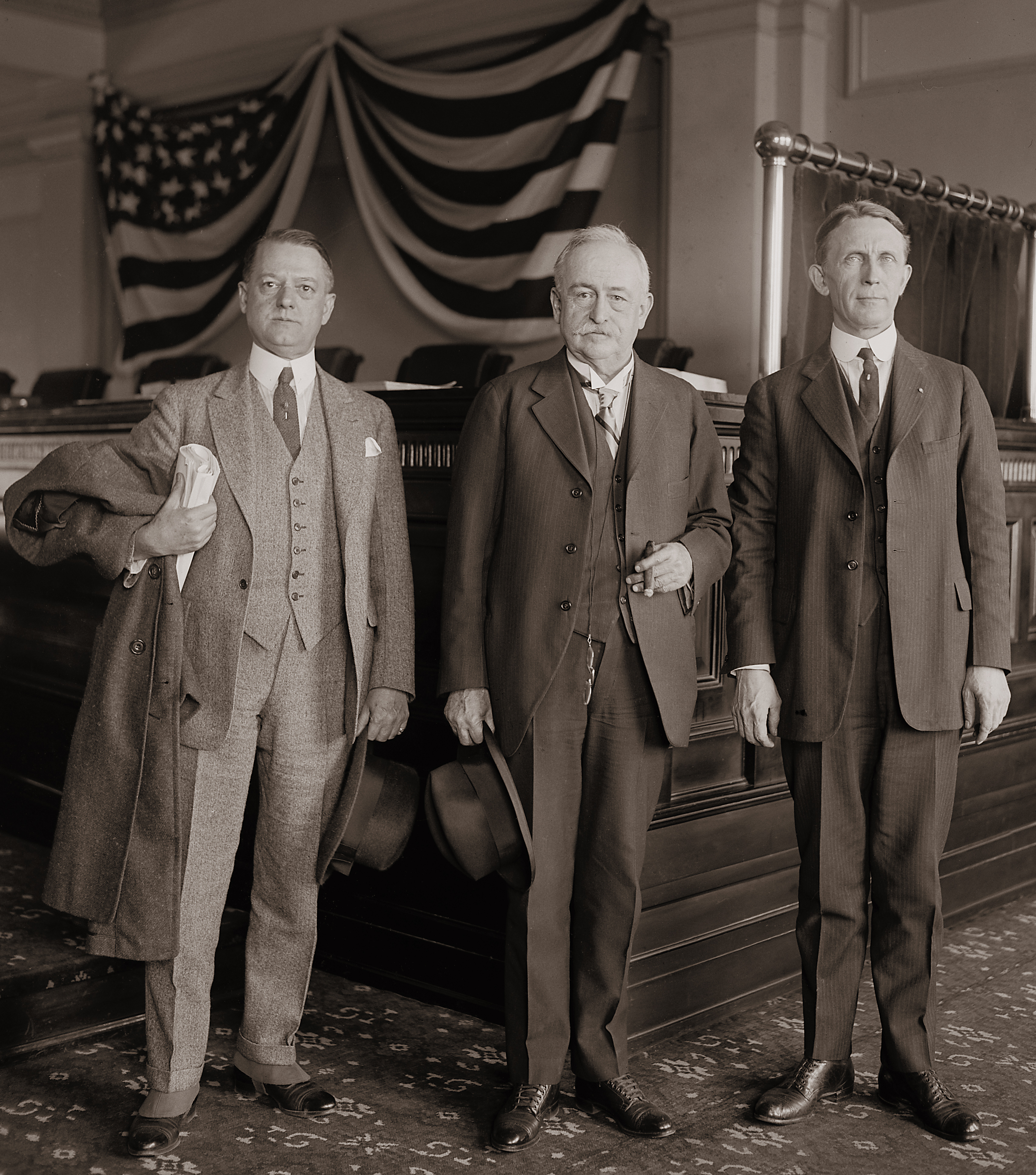 G.W.W. Hanger, R.M. Barton, and Chairman Ben W. Hooper of the United States Railroad Labor Board.